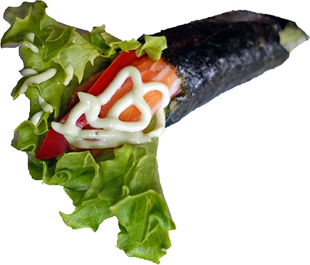 Temaki sushi in Sakura sushi restaurant. Mikkeli, Finland.